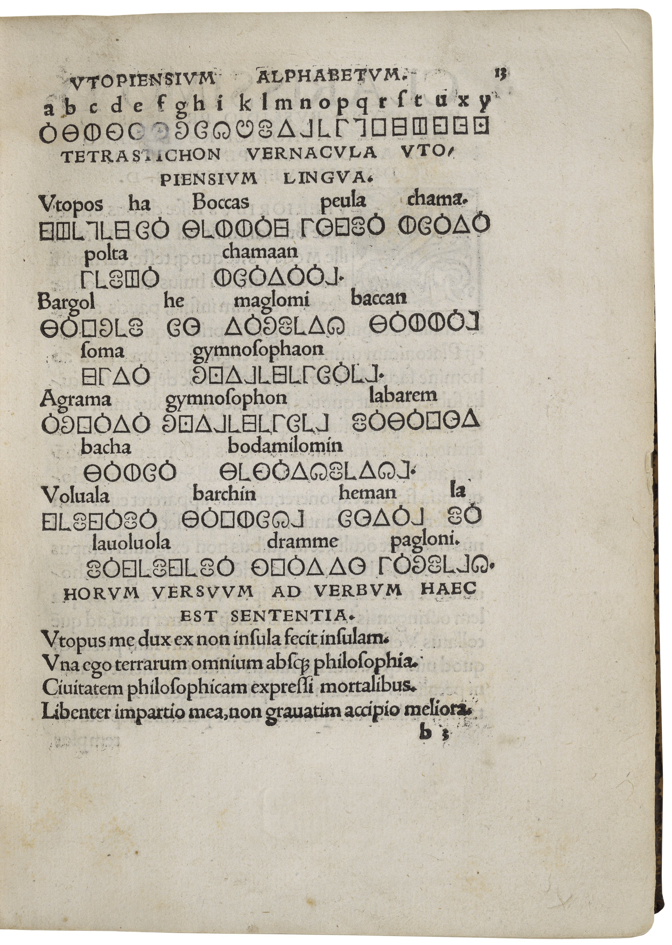 This is the Vtopiensivm Alphabetvm (probably by the hand of P. Gillis), as it appears in Thomas More's Utopia (november 1518)